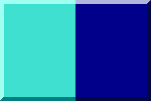 Torquoise and blue rectangle